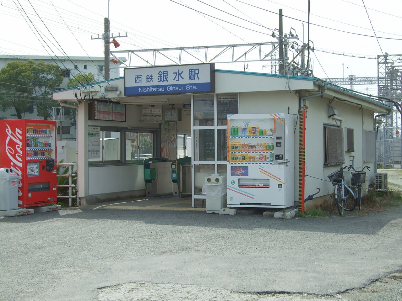 Nishitetsu Ginsui Station on Nishitetsu Tenjin Omuta Line.